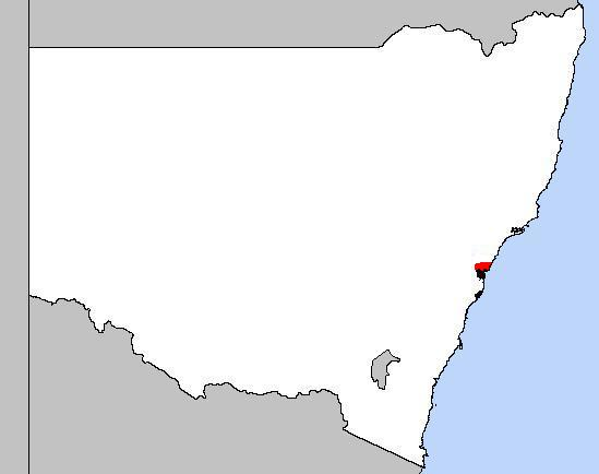 Map of New South Wales